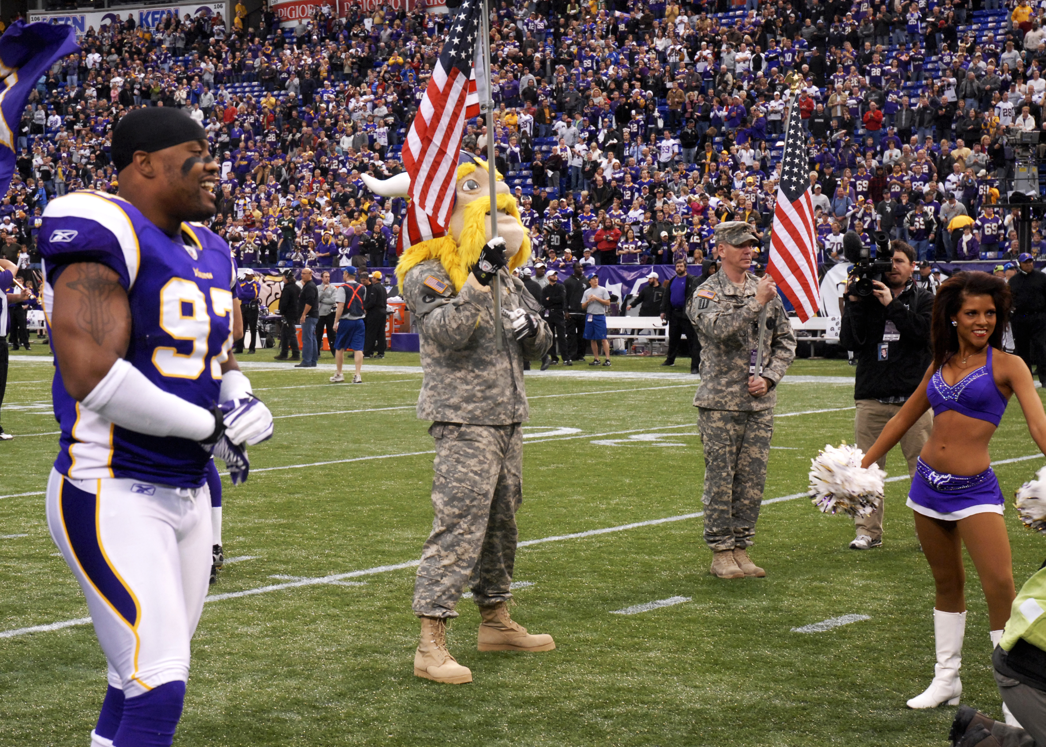 Minnesota Vikings DE Everson Griffen during the Military Appreciation game